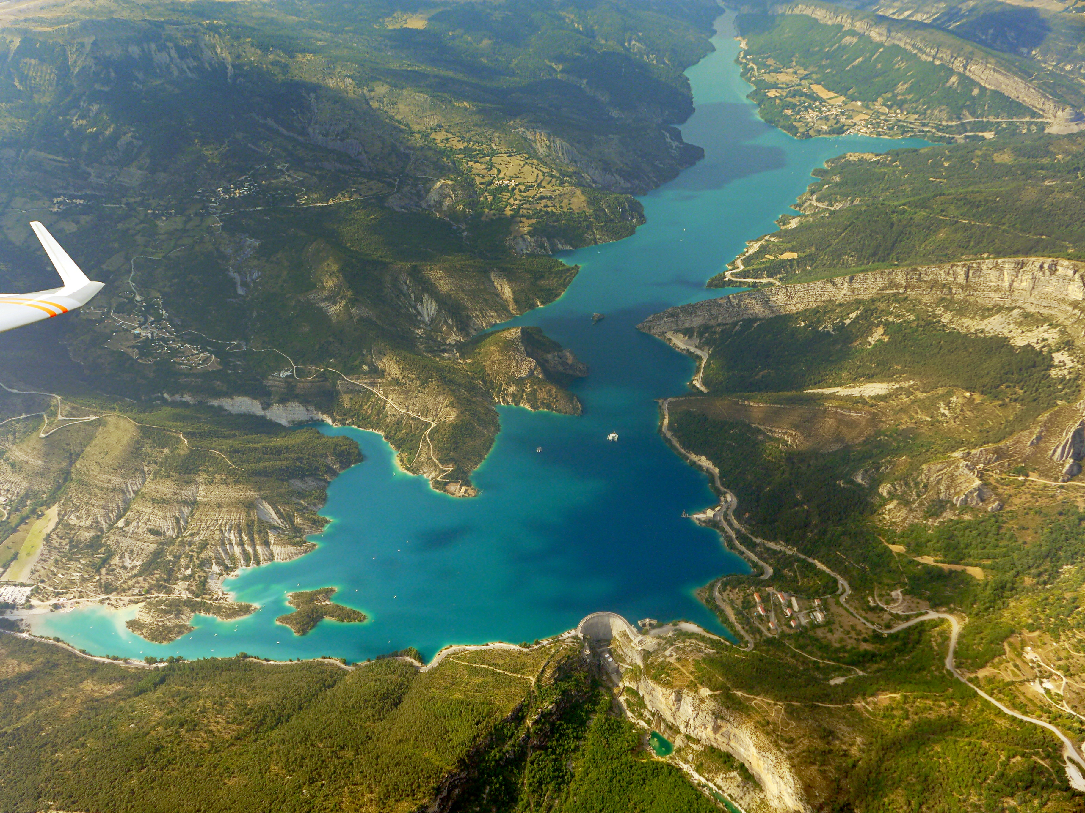 Aerial view taken from 2500 metres altitude of the reservoir and dam.